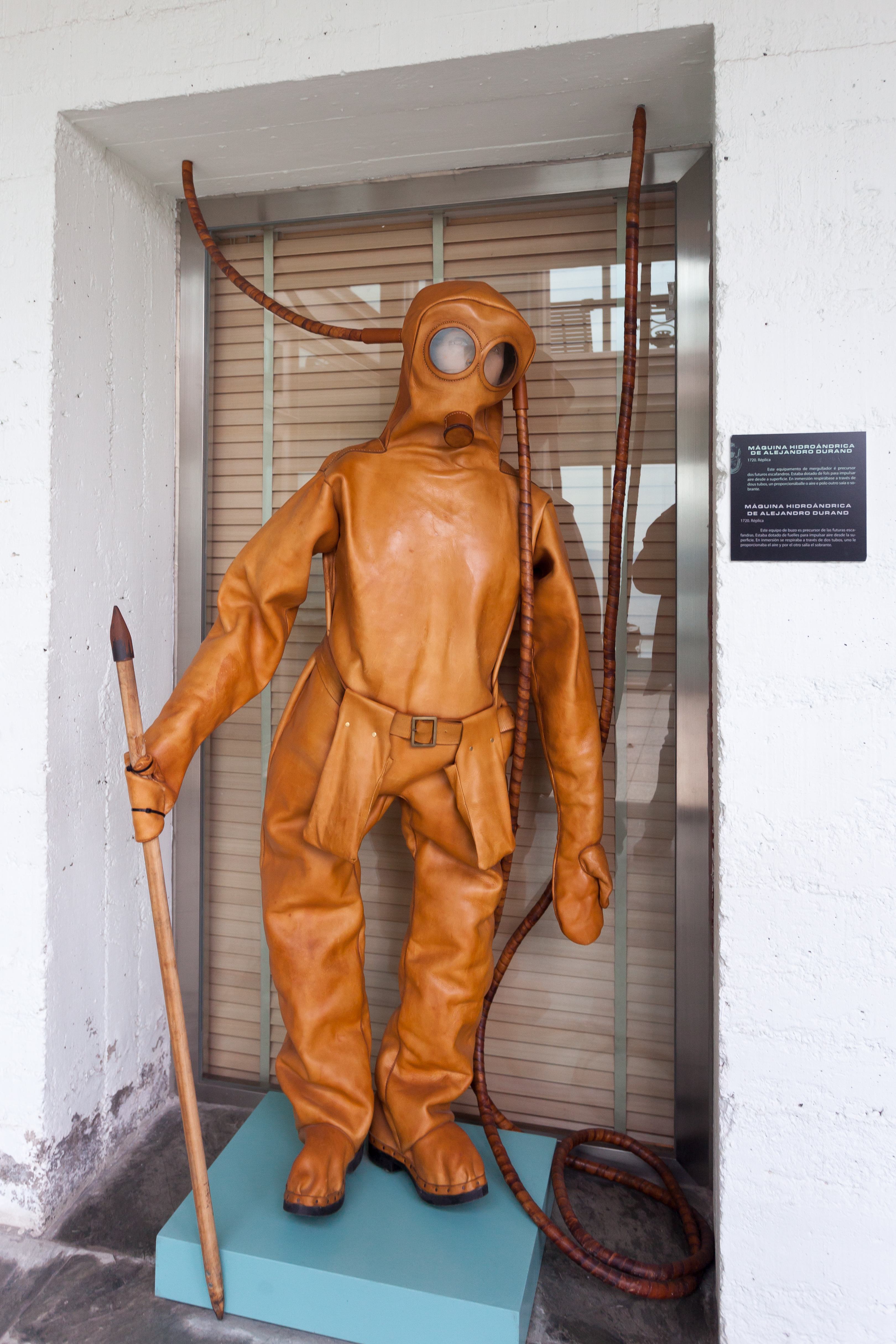 Diving suit. Collections of the Museo do Mar de Galicia, Vigo, Galicia (Spain).